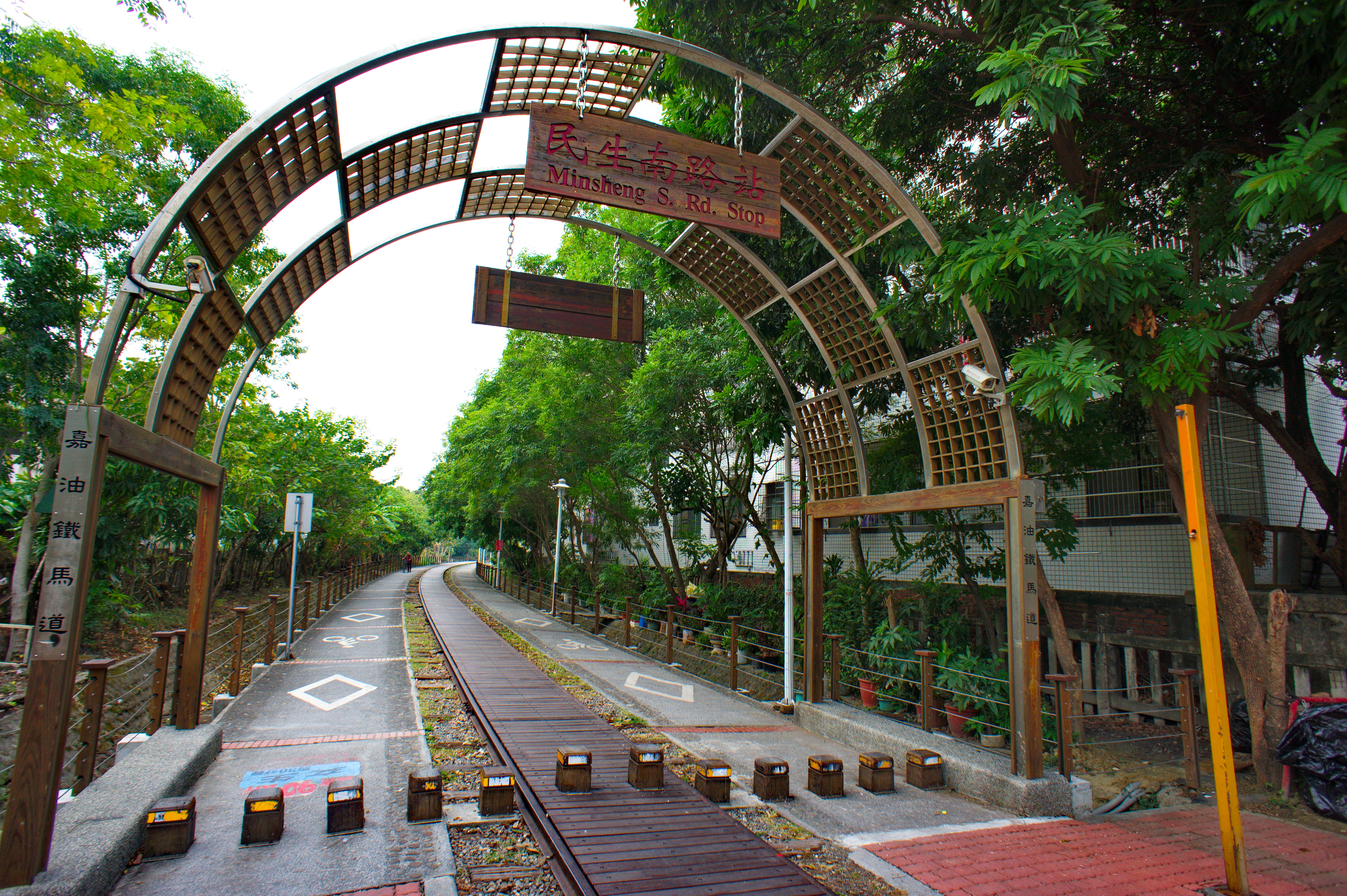 Entrance at Minsheng South Road, Jiayou Bicycle Trail, Chiayi City, Taiwan. The Trail was once the old railway of the China Petroleum Company.